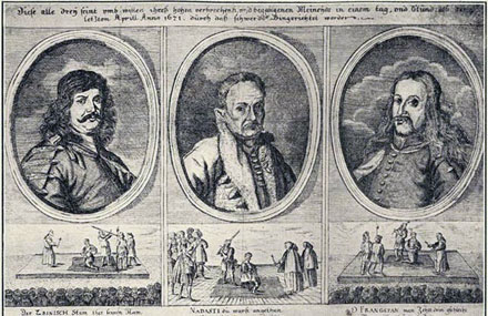 The execution of Péter Zrínyi, Kristóf Frangepán and Ferenc Nádasdy